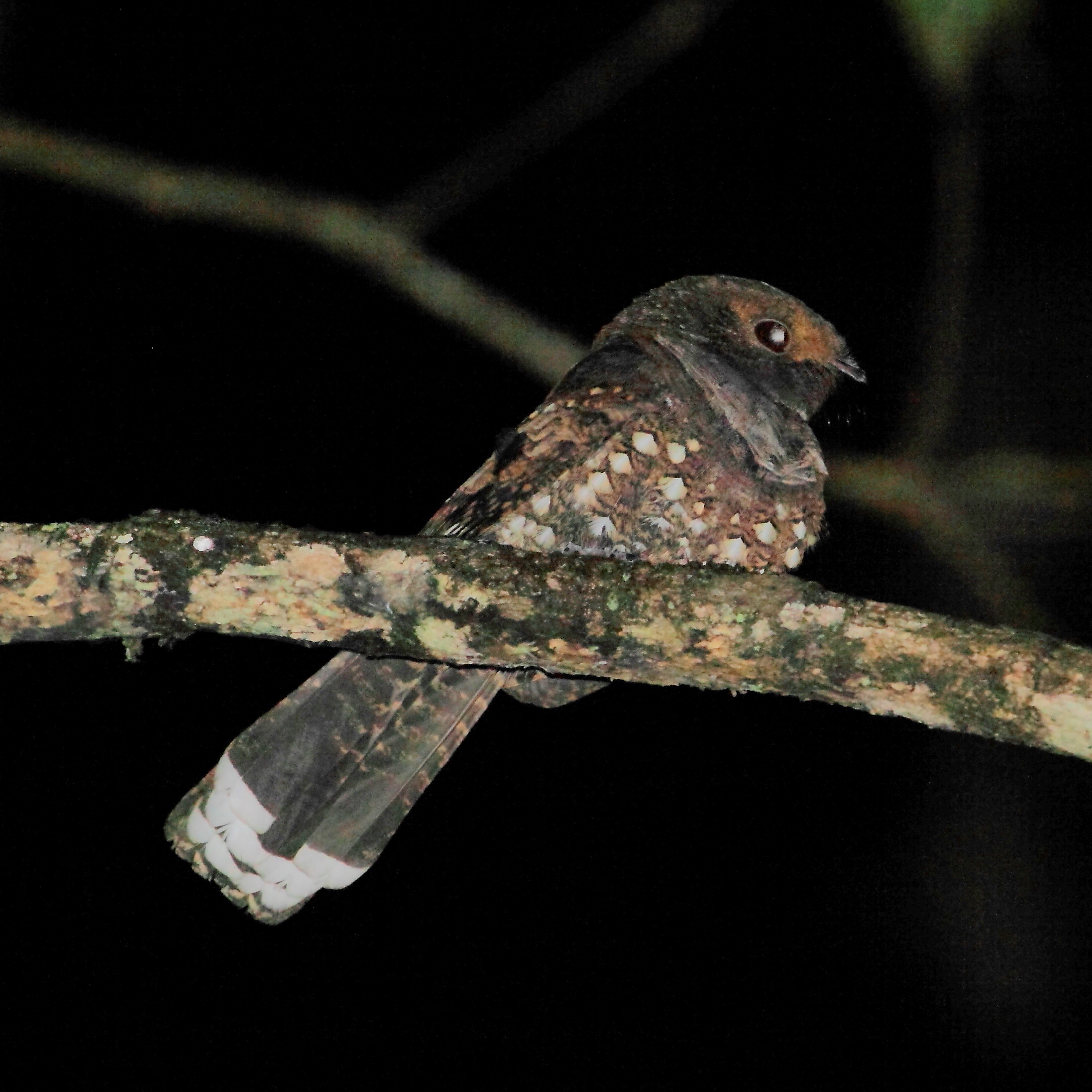 Ocellated Poorwill at Tremembé - SP - Brazil